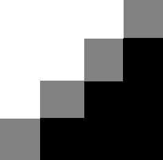 reconstruction of image compressed as a fractal